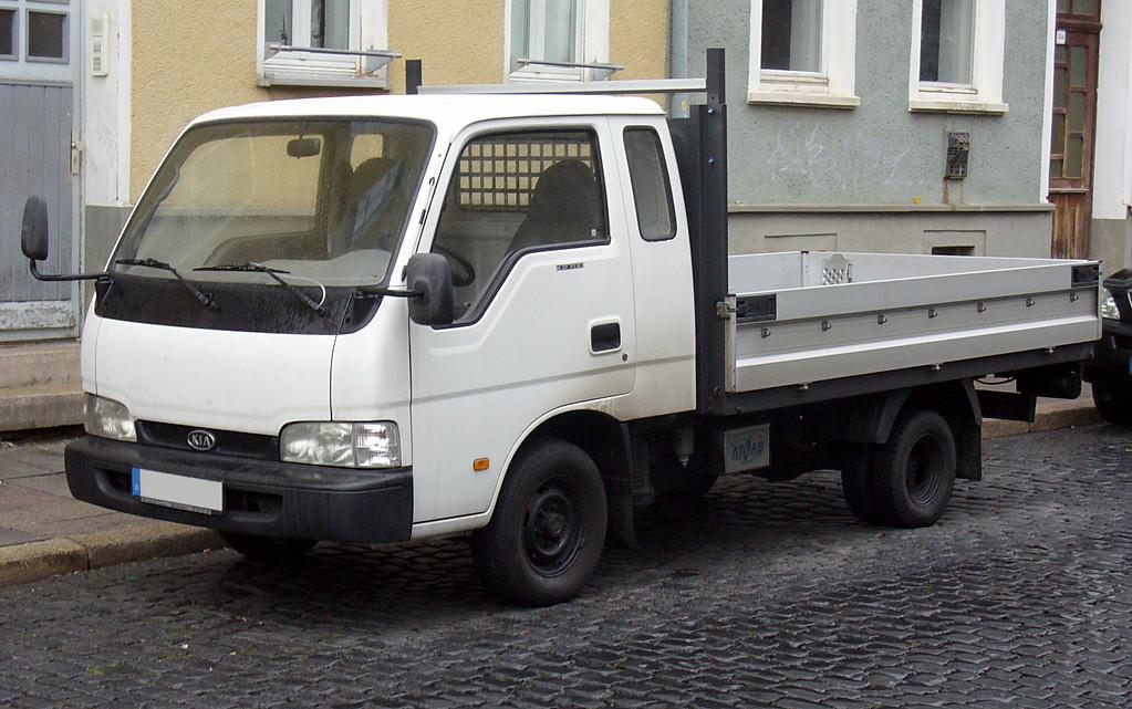 Kia K2700 (export label for the Kia Trade)